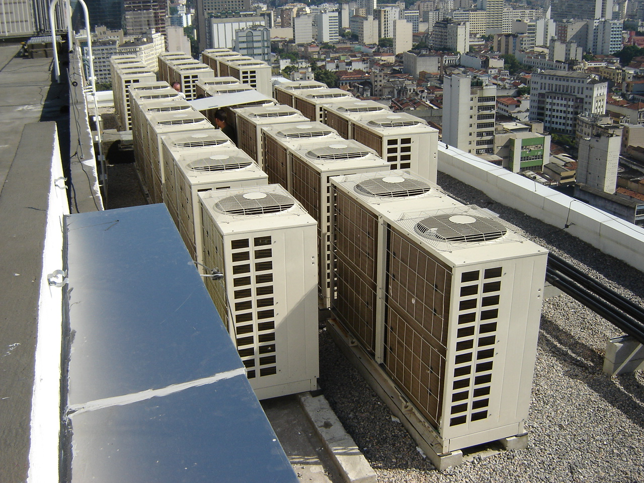 Sistema multisplit VRF instalado no centro do Rio de Janeiro